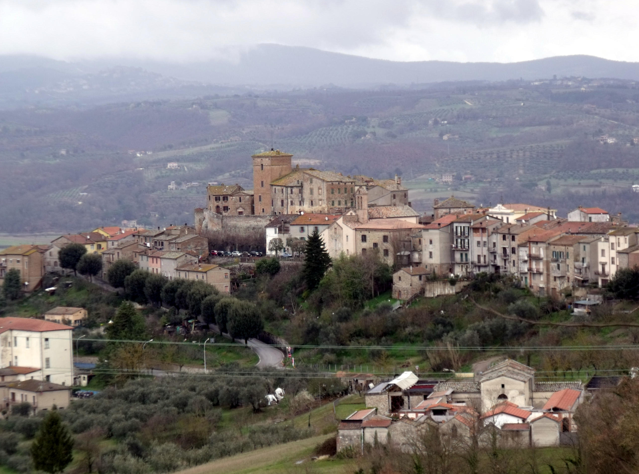 Panorama of Fabro, Province of Terni, Umbria, Italy